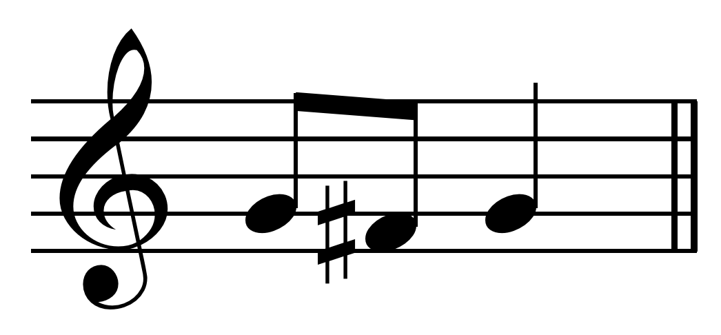 Motif from many of Bach's works including third and sixth Brandenburg Concertos.